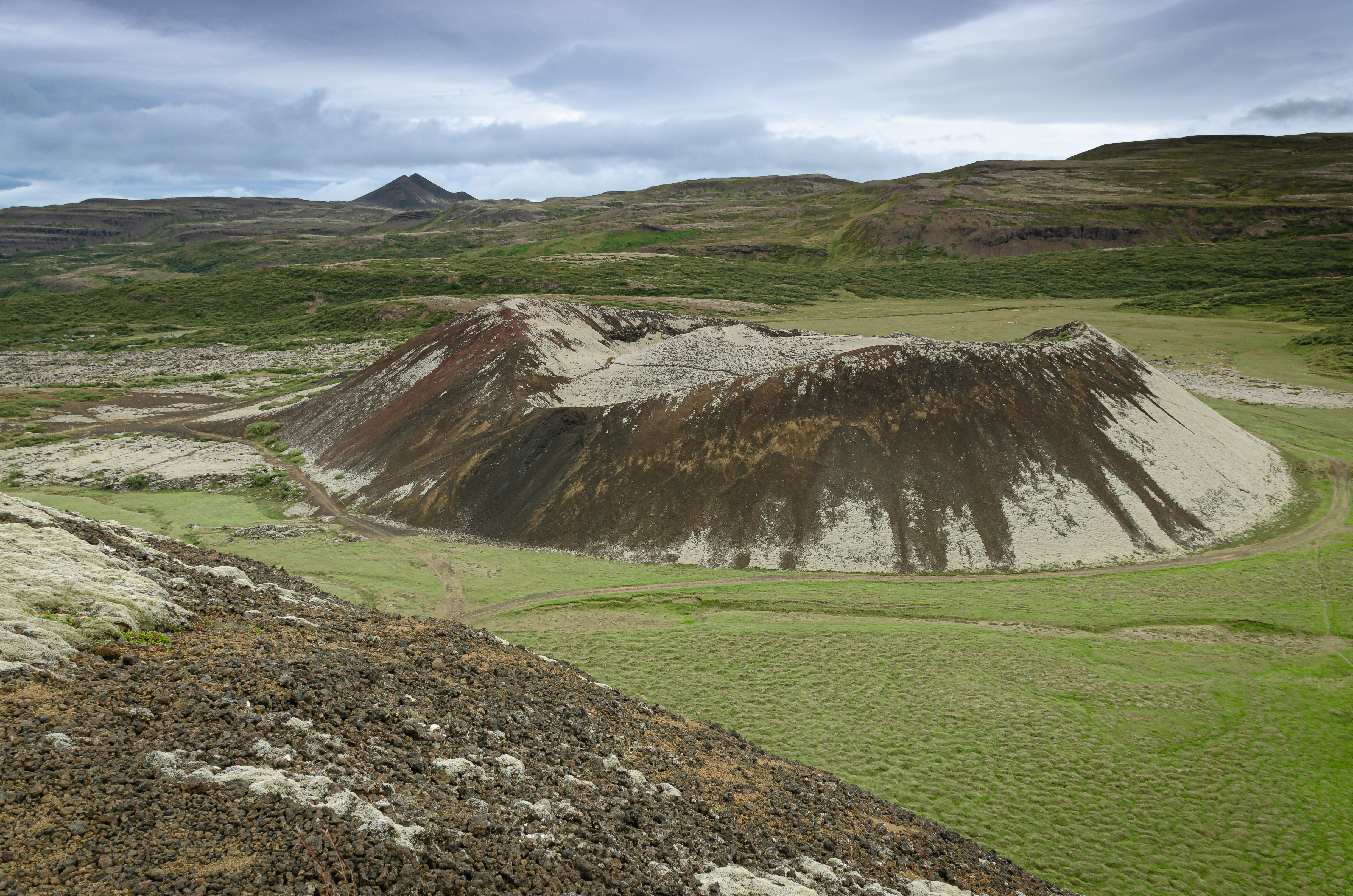 Grábrókarfell, West Iceland